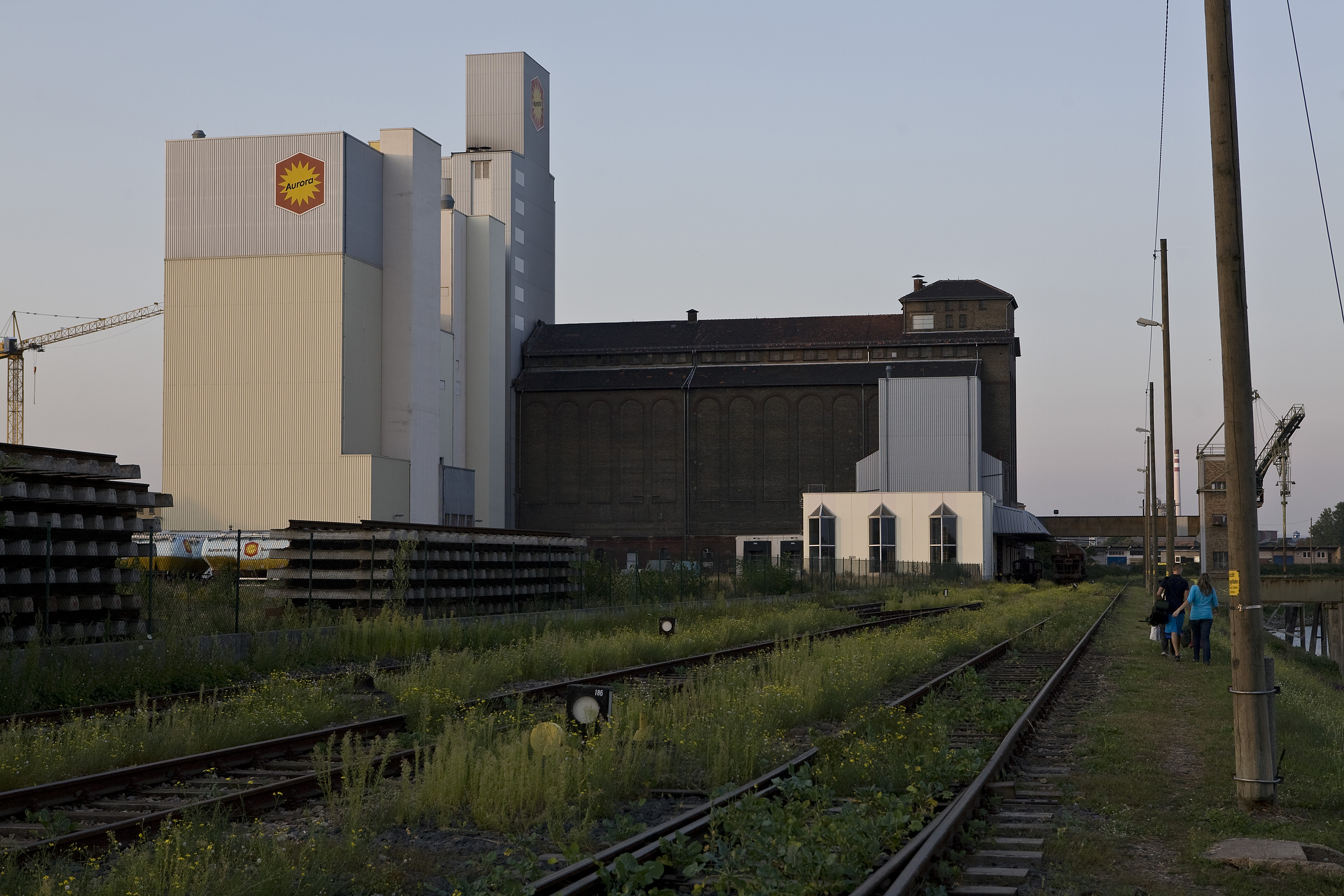 View to the Aurora Mill in Mannheim